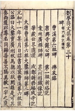 Anthology of Li Mengde, Song edition (宋版劉夢得文集, sōhan ryūbōtoku bunshū). Anthology by Liu Yuxi. One of 12 bound books by fukuro-toji, ink on paper. Located at Tenri Central Library, Tenri, Nara, Japan.